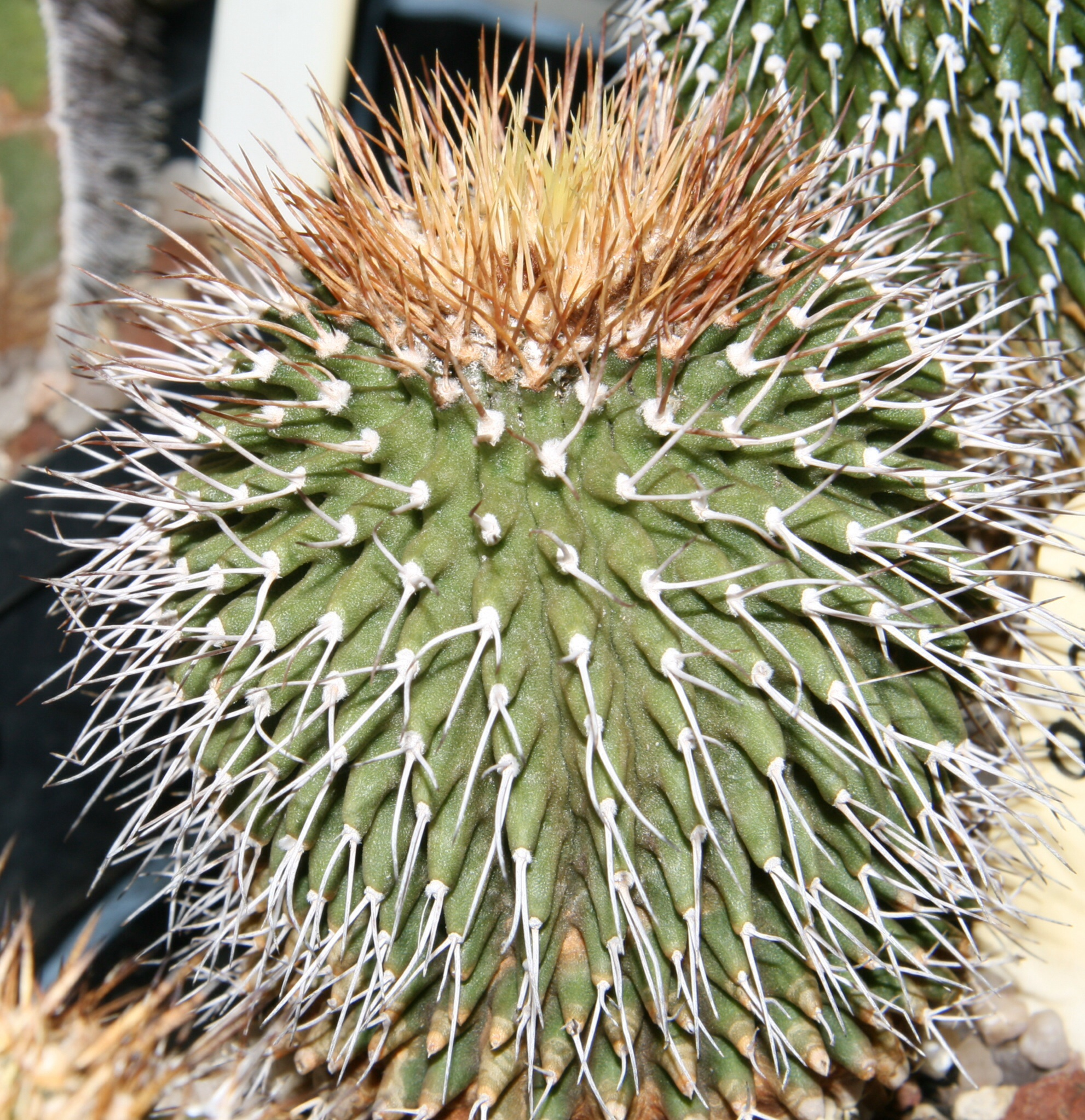 Here subsp. meninensis (Buining) P.J.Braun & Esteves, from type locality, Minas Gerais